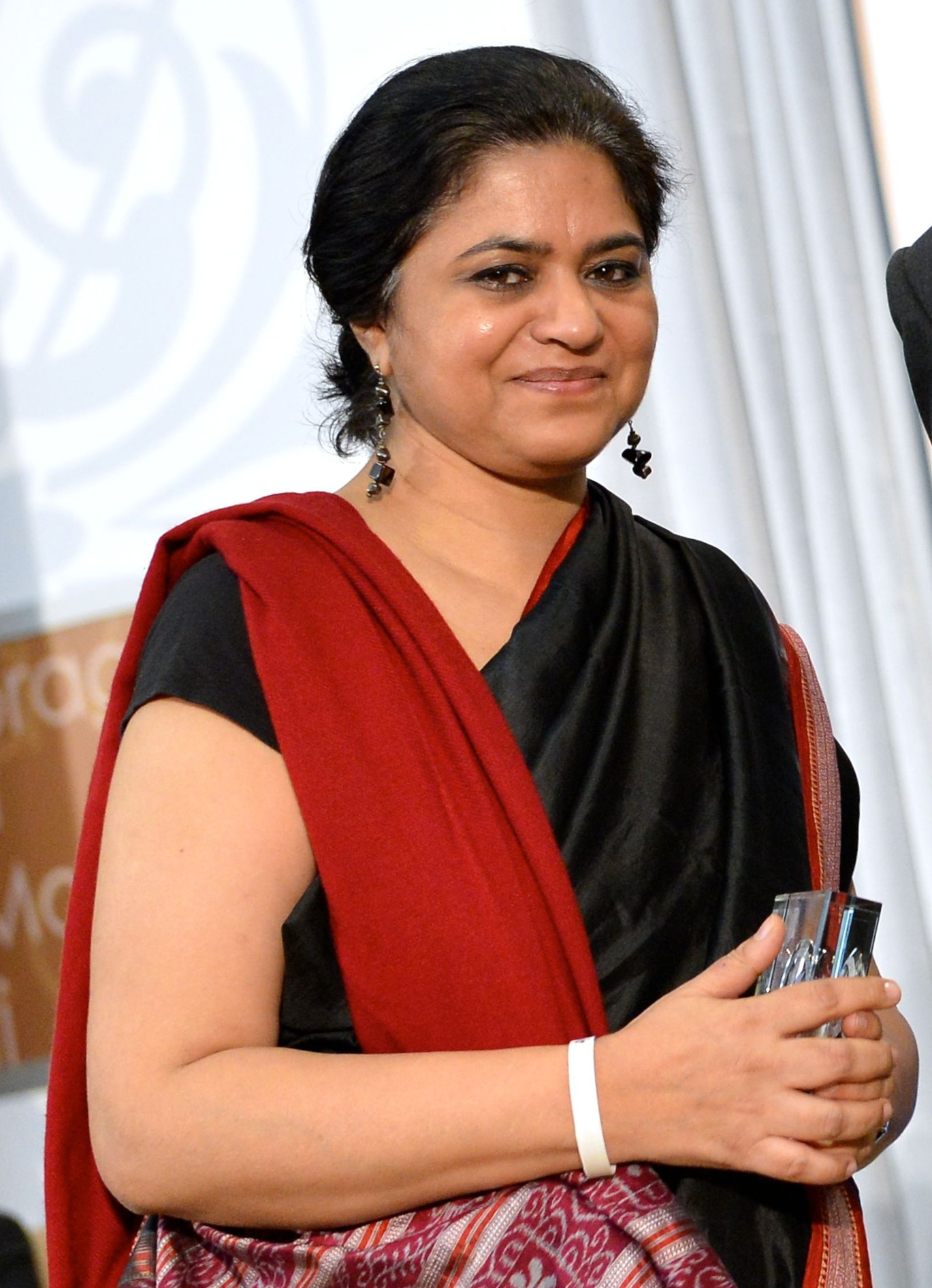 cropped pic Sara Hossain of Bangladesh, Barrister of the Supreme Court, at the U.S. Department of State in Washington, D.C., on March 29, 2016. [State Department photo/ Public Domain]